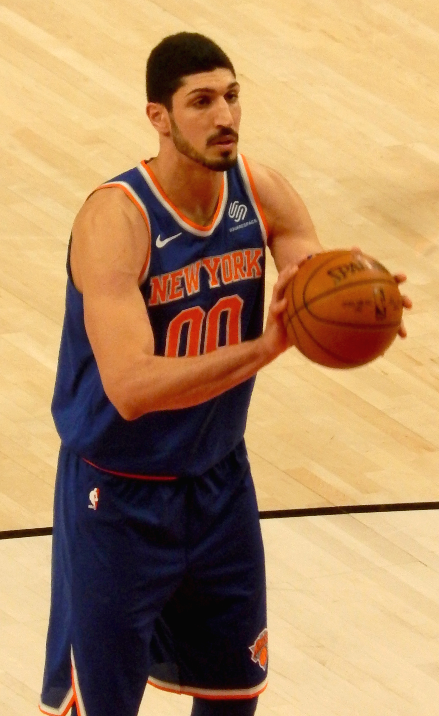 Enes Kanter #00 of the New York Knicks against the Portland Trail Blazers on March 6, 2018 at Moda Center in Portland, Oregon.